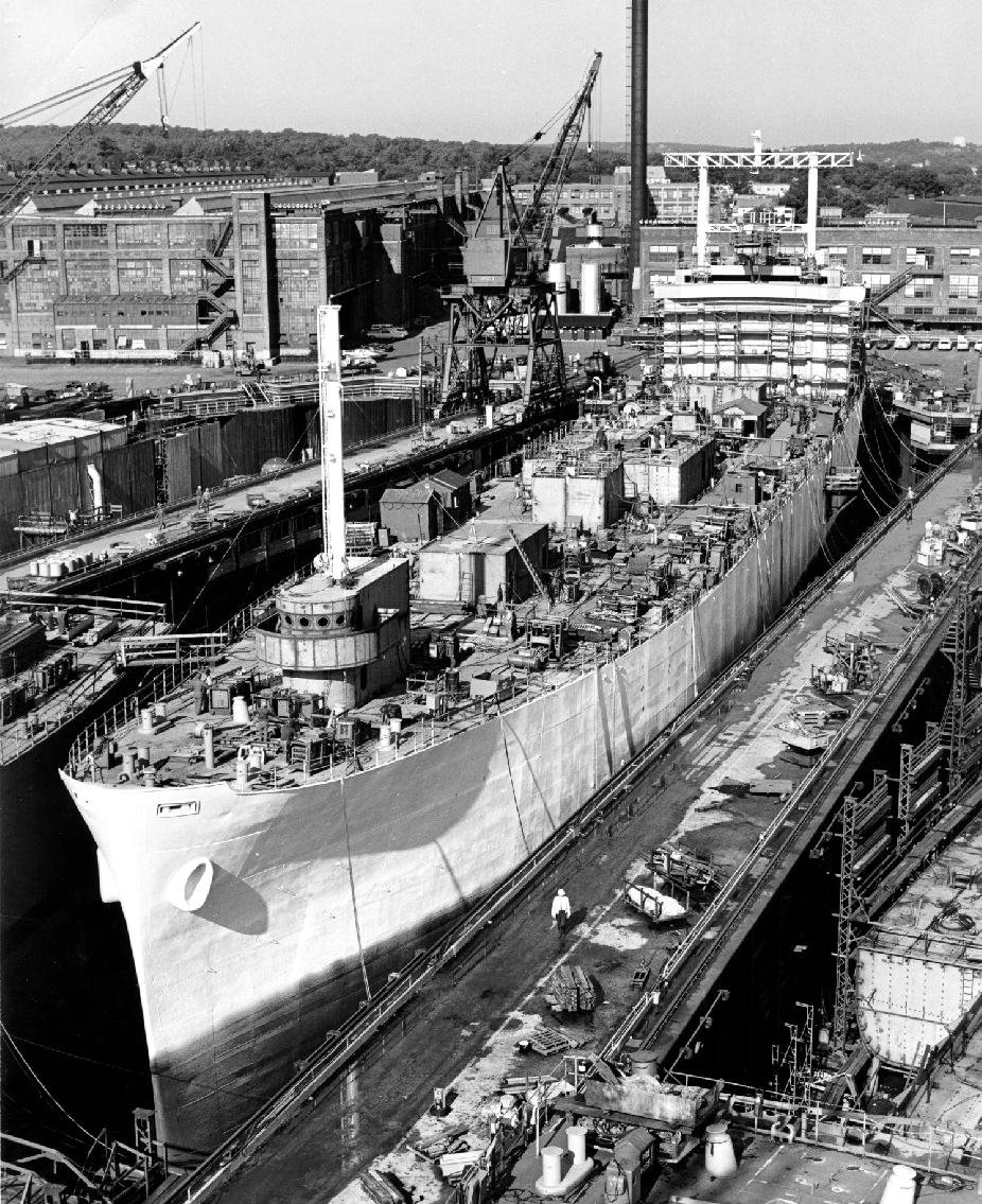 USNS Muscle Shoals (AGM-19) nearing completion in dry dock at Quincy, Massachusetts. It would be renamed USNS Vanguard (T-AGM-19) before ever leaving dock.